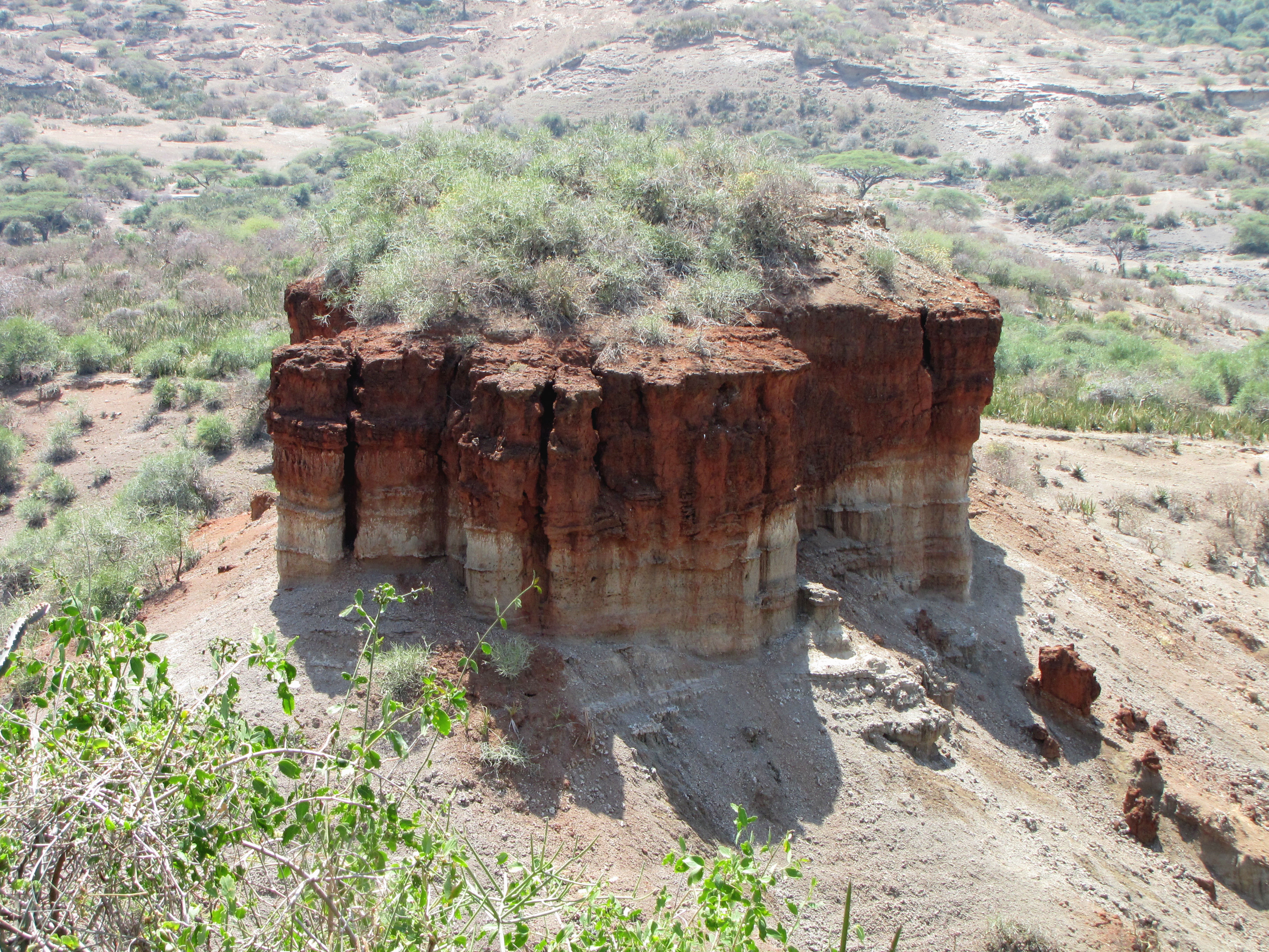 View on monolith at Olduvai Gorge, Tanzania